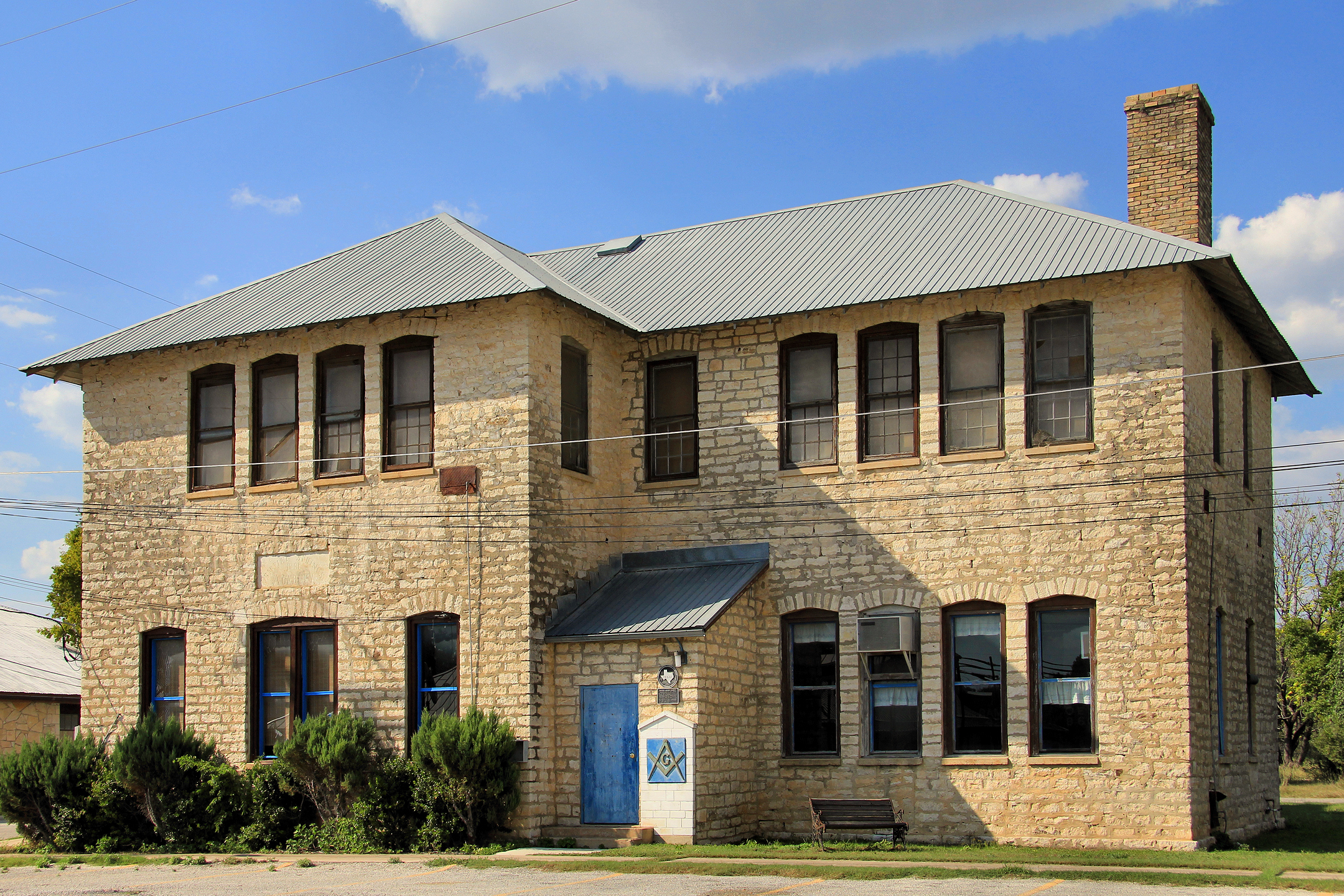 The Dripping Springs Academy building, located in Dripping Springs, Texas, United States. The building was designated a Recorded Texas Historic Landmark in 1968 and listed on the National Register of Historic Places on July 17, 2013 as a contributing property to the Dripping Springs Downtown Historic District.